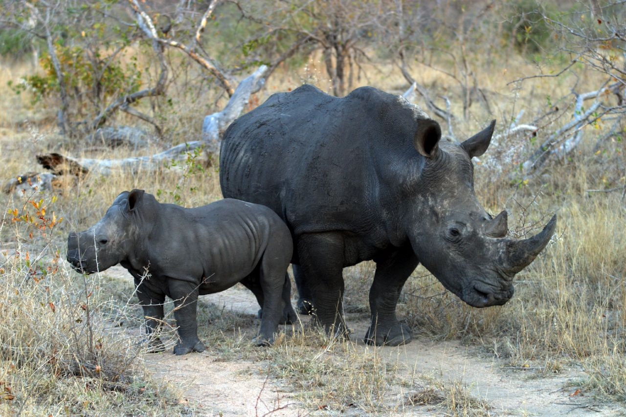 A White Rhinoceros (Ceratotherium simum) cow and calf coated in mud at Sabi Sands Game Reserve, South Africa.